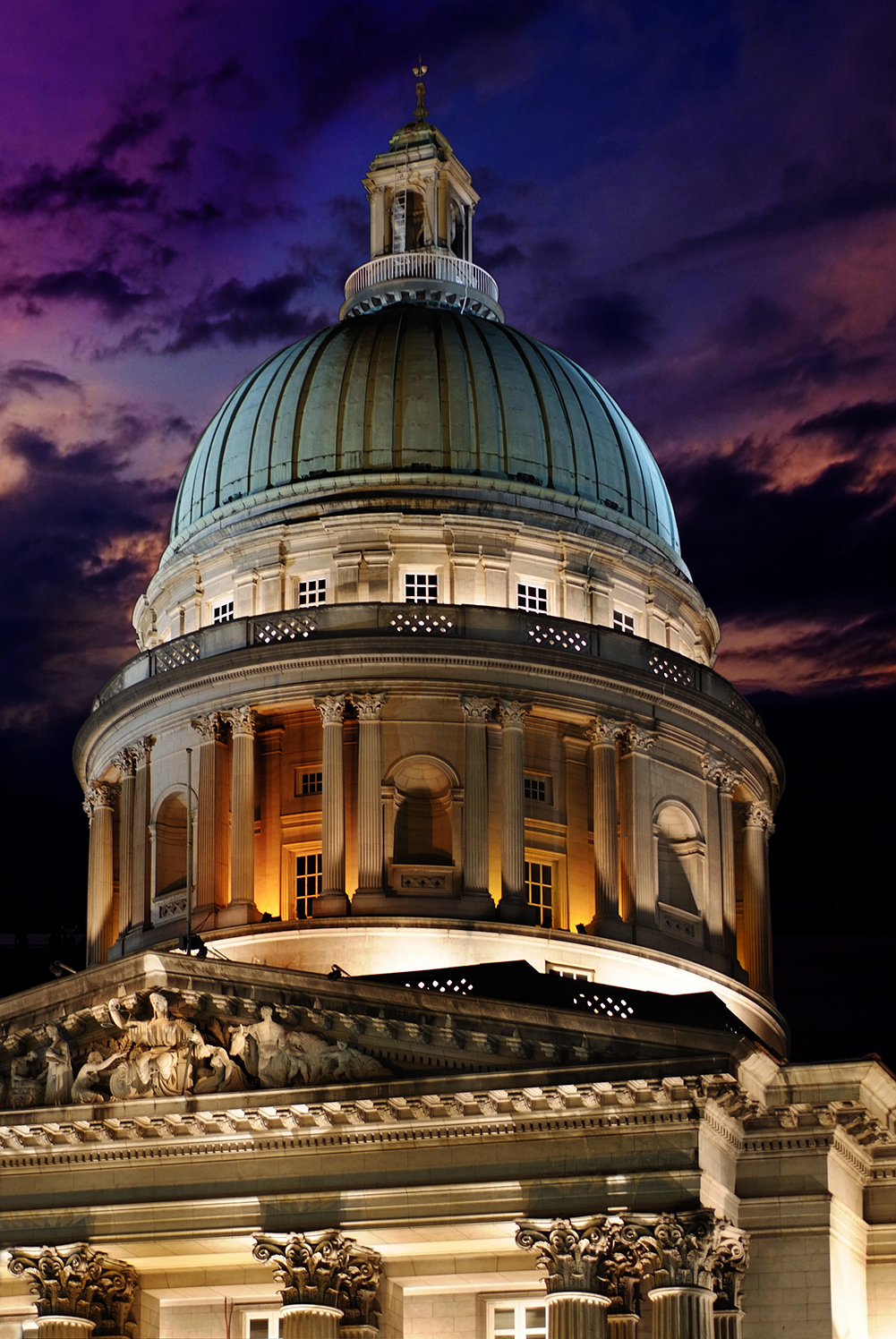 The big copper dome of Old Supreme Court – Singapore. Shot on the fly handheld at high ISO400 during the F1 season when it was well lighted up.